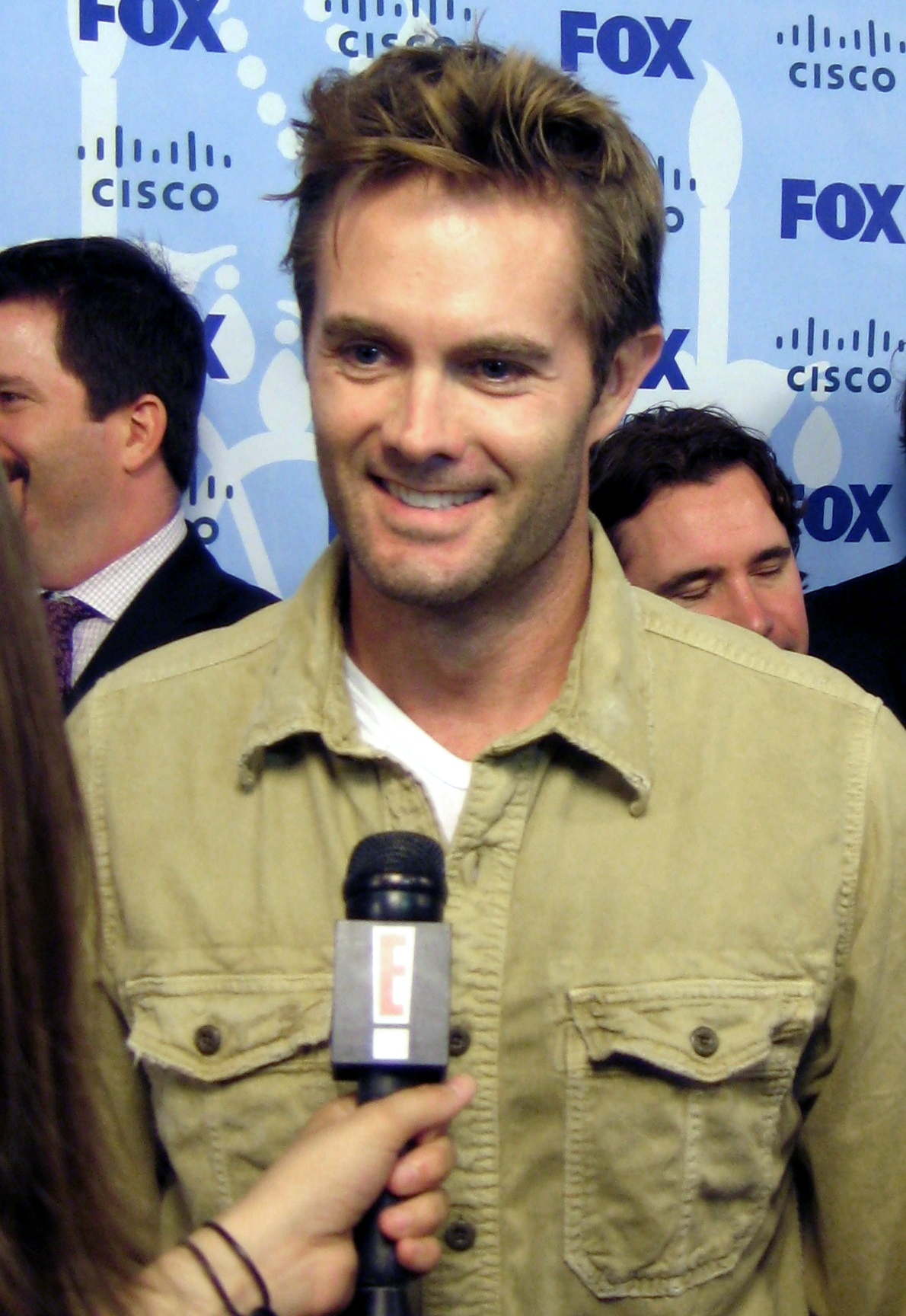 Fox Fall Eco-Casino Party, London Hotel, West Hollywood, California - Sept. 8, 2008